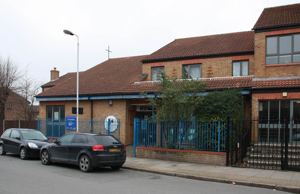 St Matthias, Kimberley Road, E16